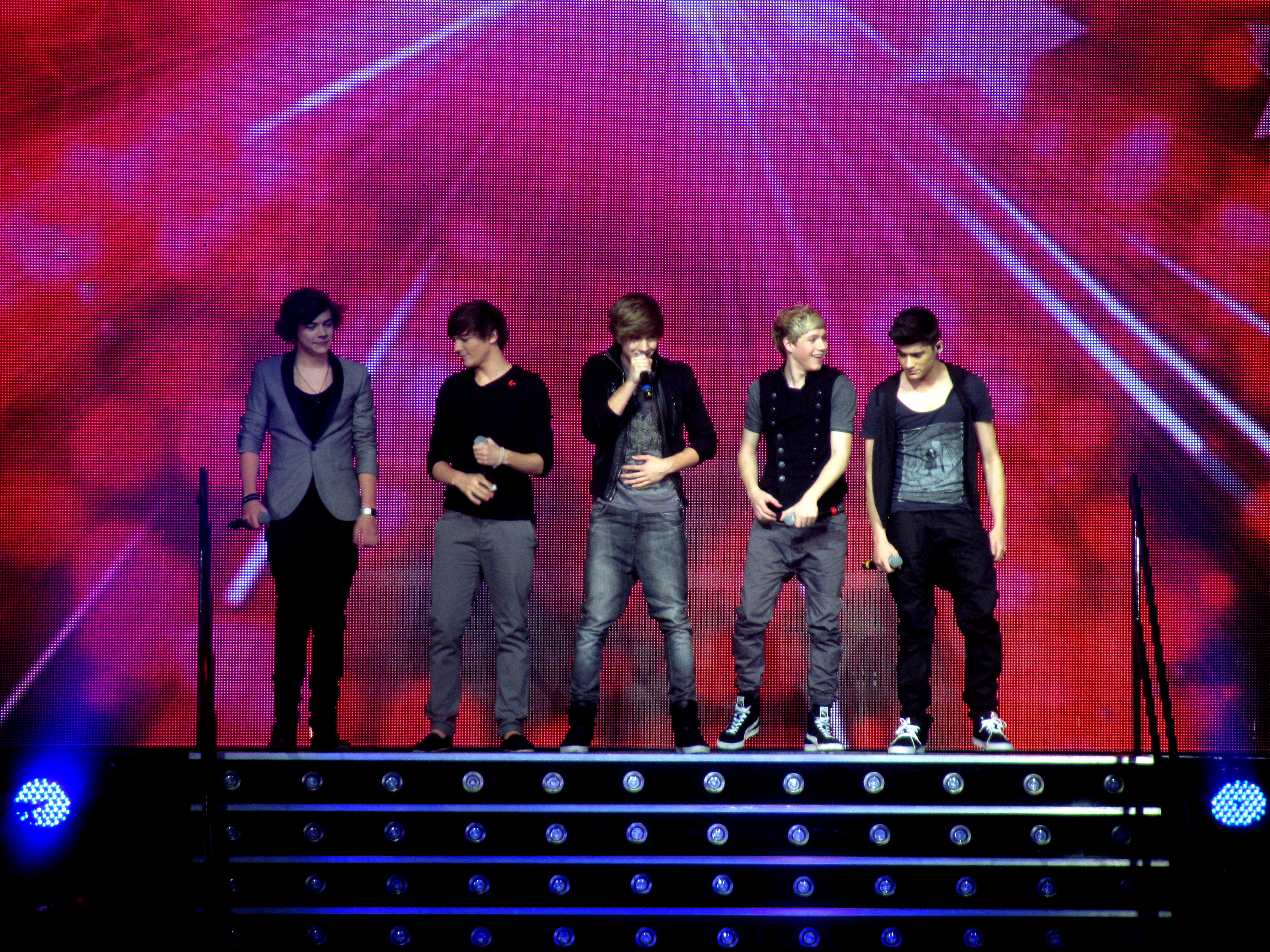 One Direction, The X Factor Live, SECC, Glasgow, 1 April 2011